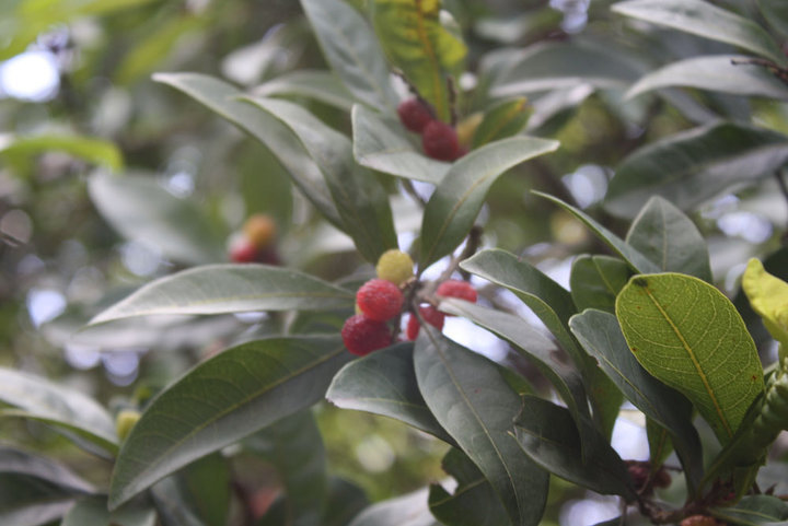 A wild Fruit found in Hilly regions of Nepal and Uttarakhandनेपाली: काफलको दाना